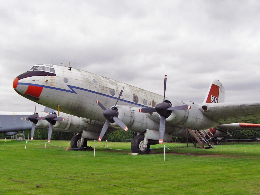 Handley Page Hastings T5 Serial TG517 on display Newark Air Museum, England